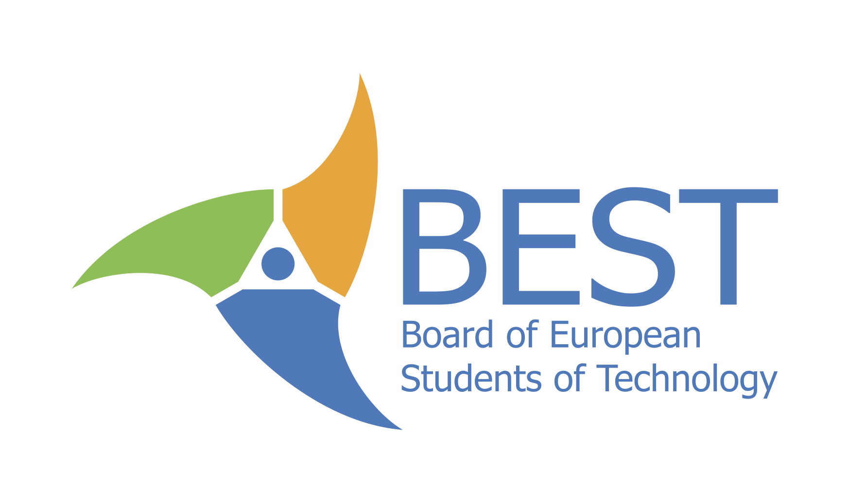 This is a logo owned by Board of European Students of Technology for Board of European Students of Technology.